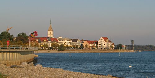 City center of Friedrichshafen, as seen from the lakeshore of the lake Constanze near the Graf-Zeppelin-Haus Photograph taken by submitter on September 24, 2003 and hereby released under the terms of the GFDL.